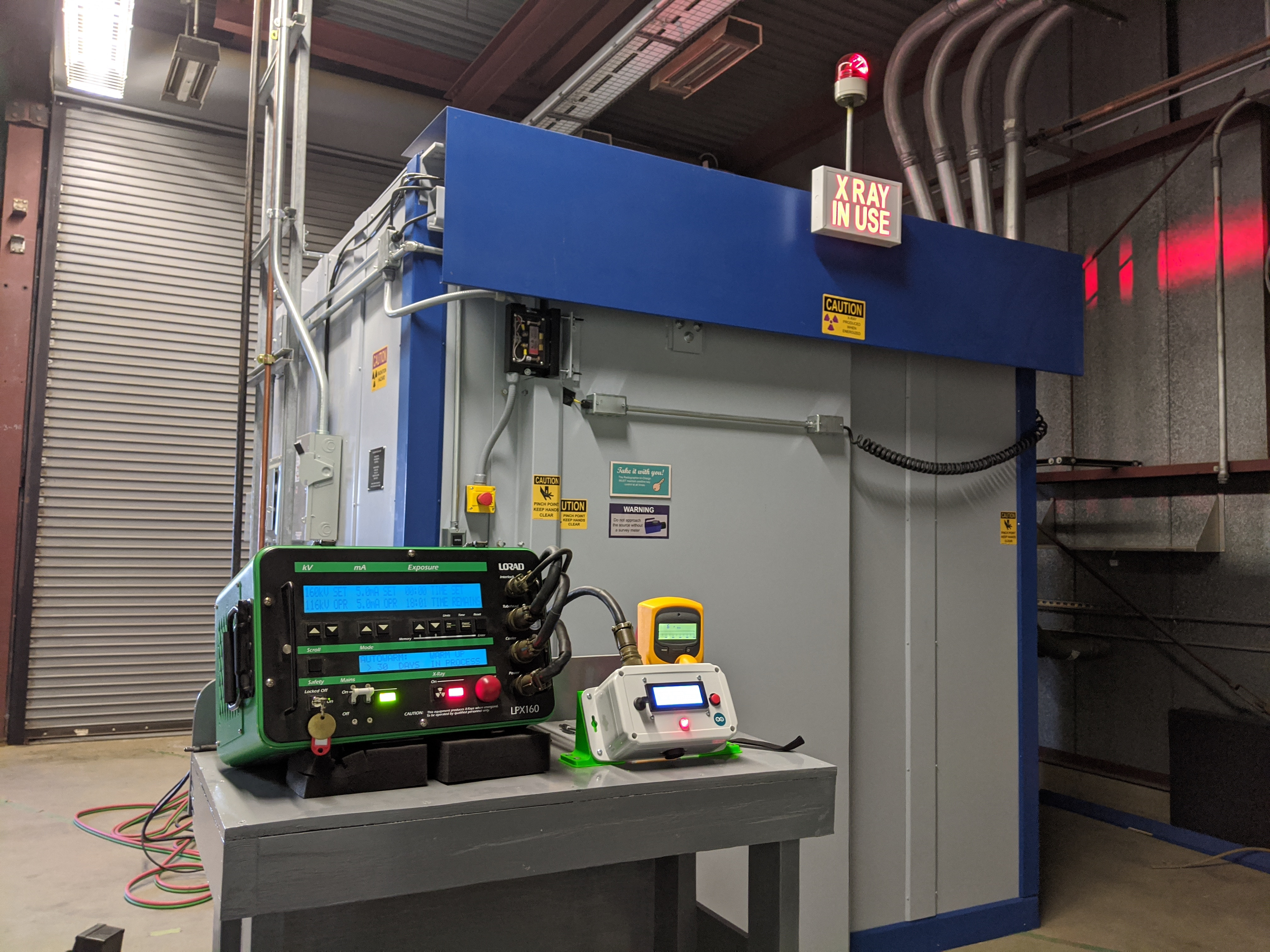 Xray vault used in radiography